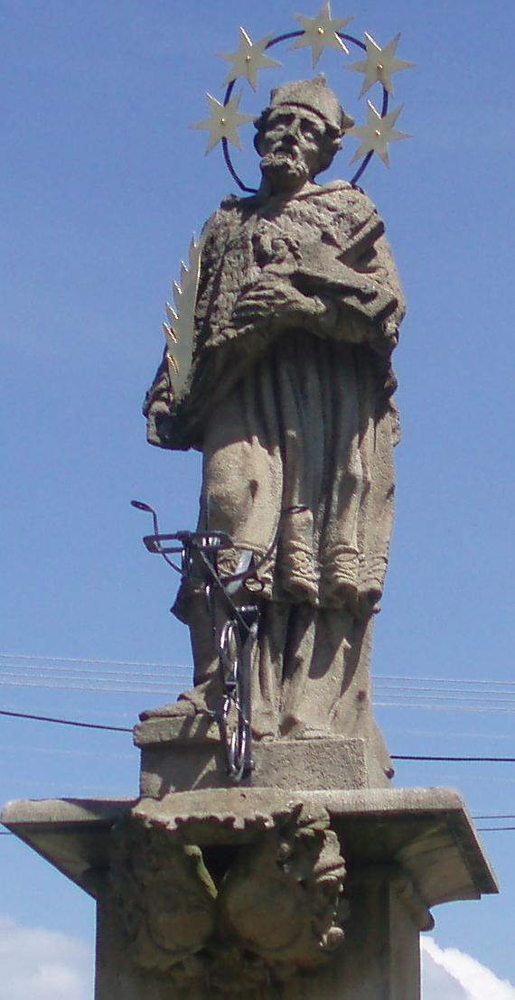 Statue of Saint John Nepomucene in Chocomyšli, Domažlice District, Czech Republic